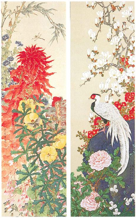 Spring and autumn gardens. Pair of hanging scrolls, colour on silk. By Komuro Suiun in 1919.